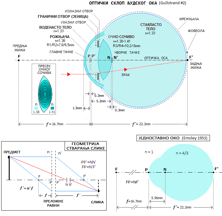 ОПТИЧКИ СКЛОП ЉУДСКОГ ОКА